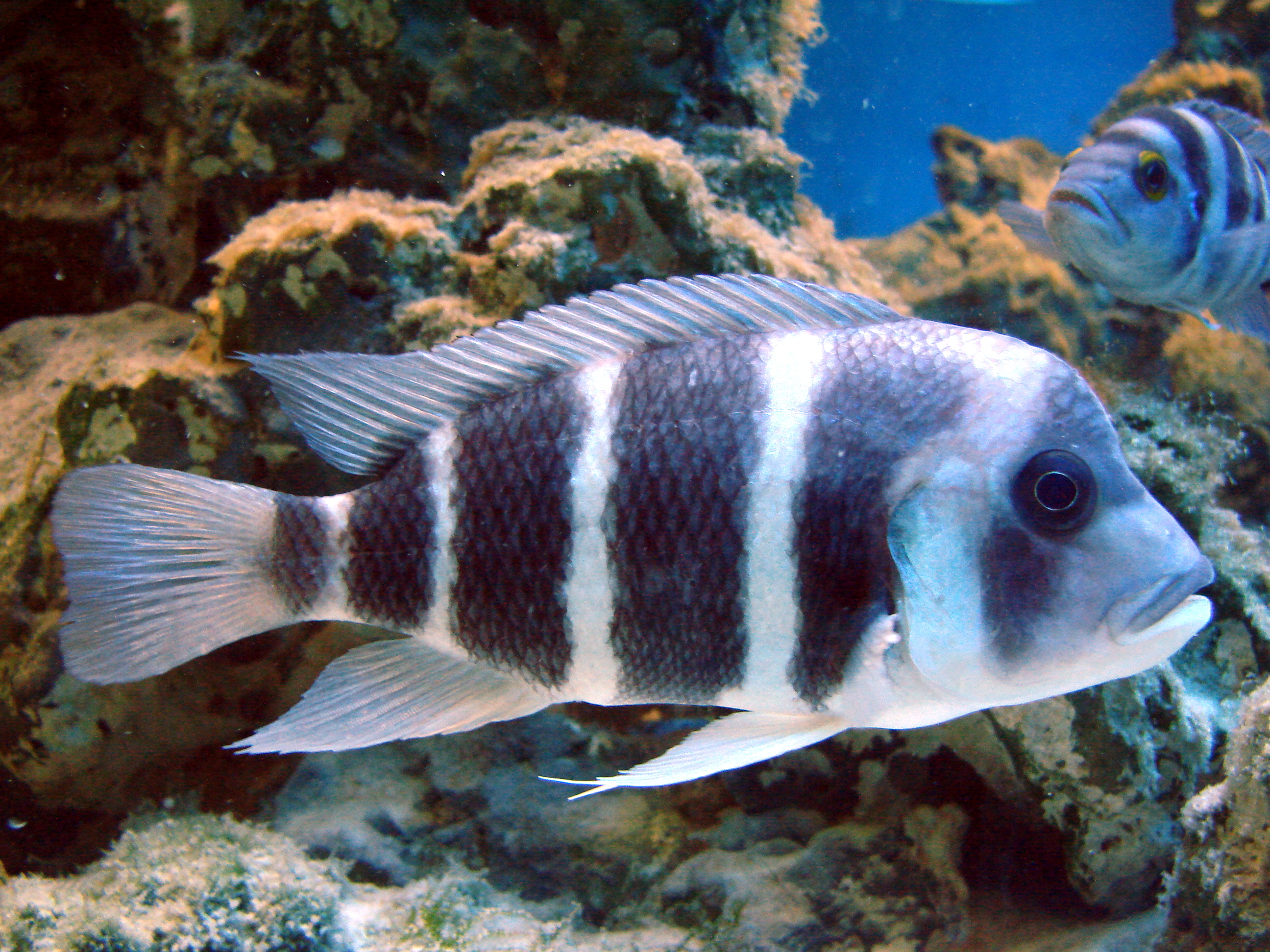 Picture taken in the zoo of Wrocław (Poland): Cyphotilapia frontosa (Boulenger, 1906)